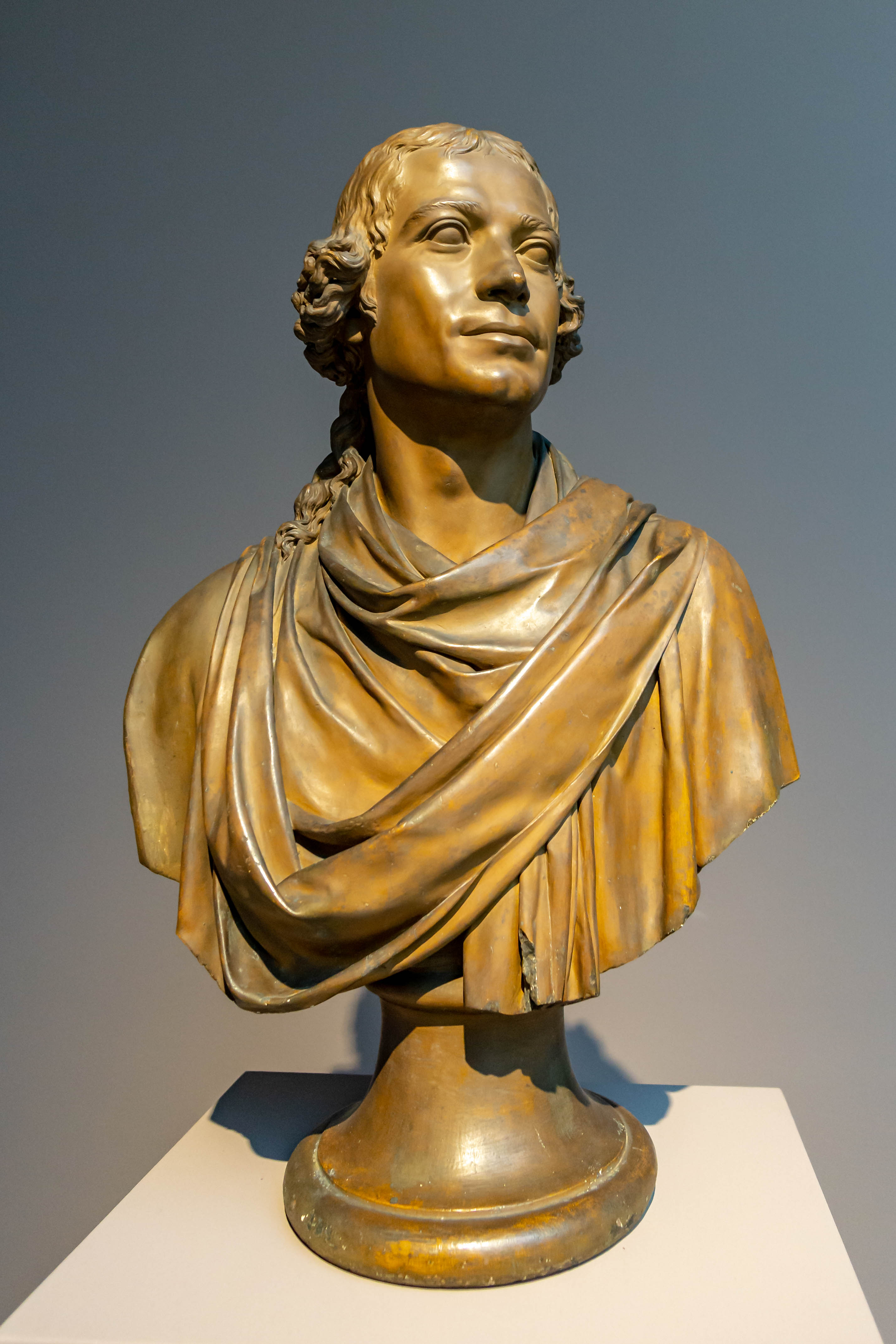 Self-portrait